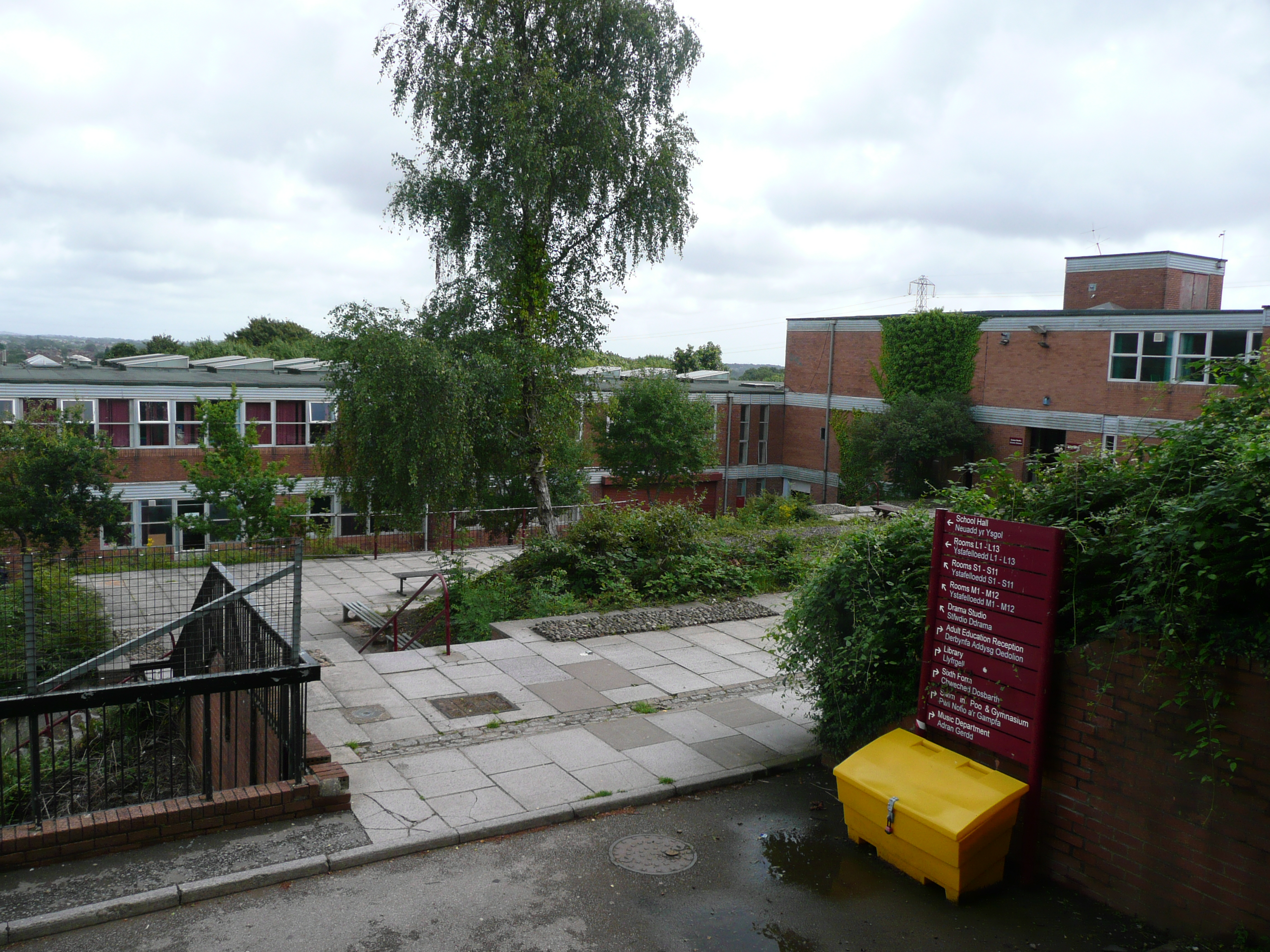 Radyr Comprehensive School buildings